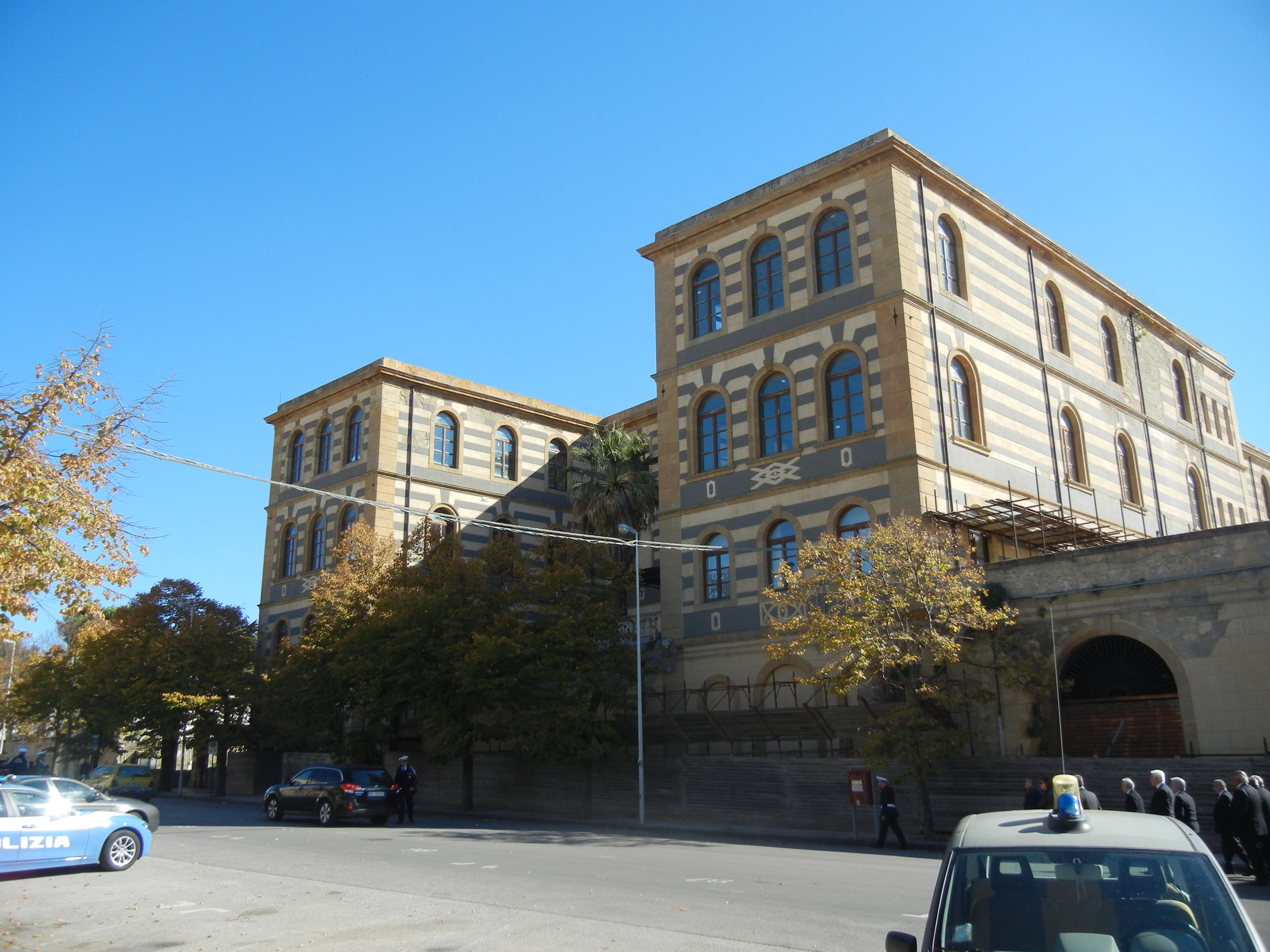 Former hospital "Vittorio Emanuele II" in Caltanissetta, Italy.